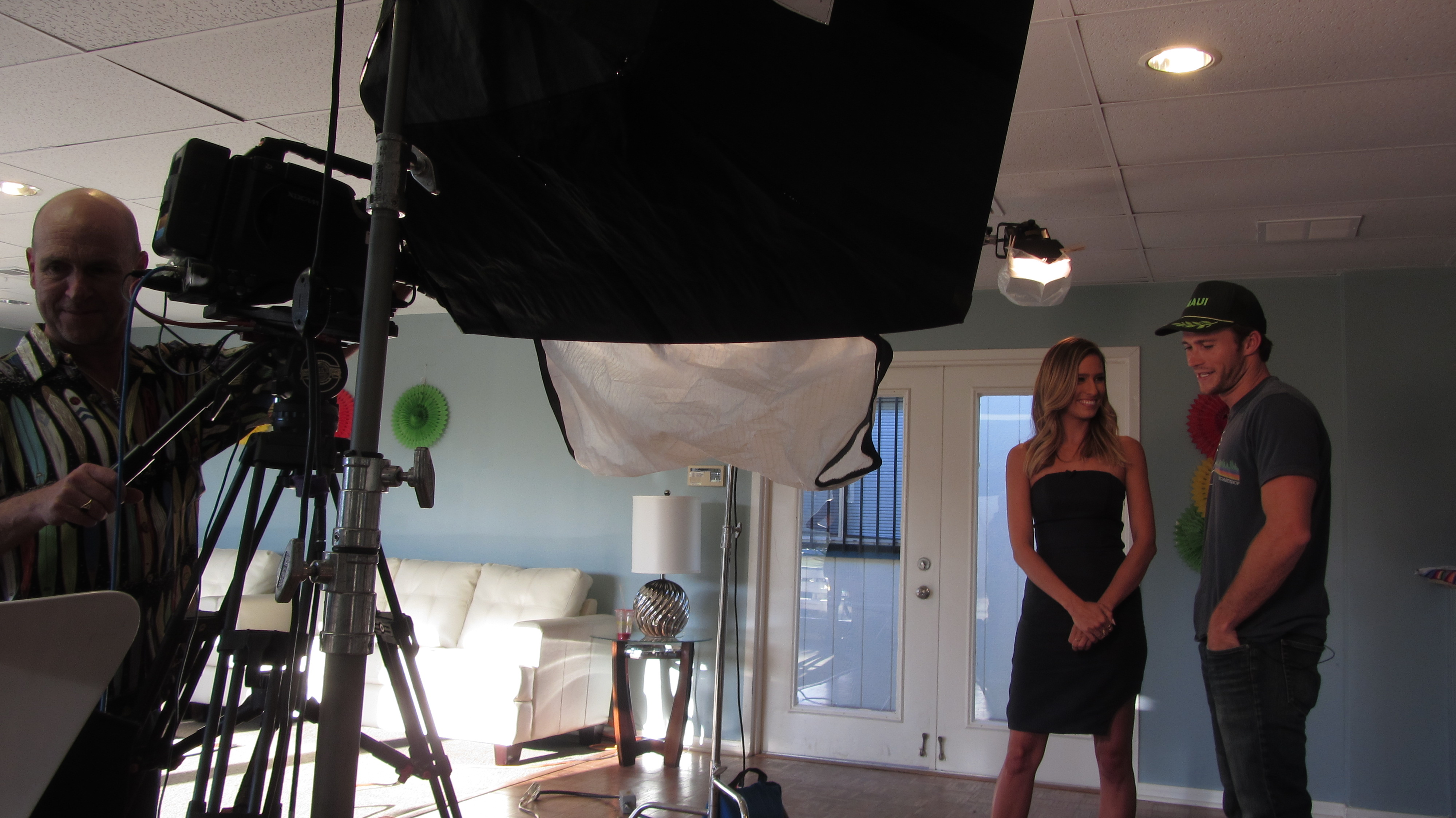 Electronic Field Production shoot for Extra with DP Mark Schulze videotaping actor Scott Eastwood and host Renee Bargh